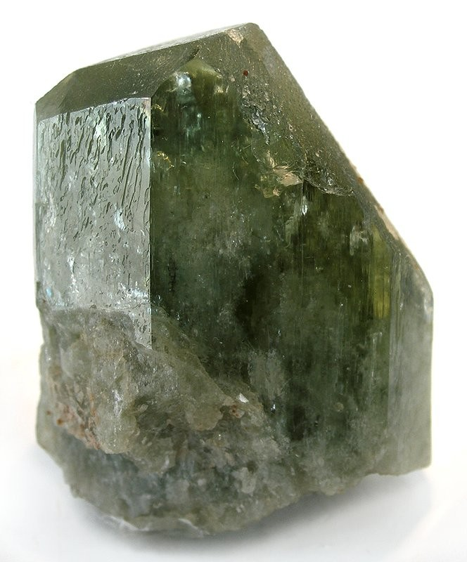 Diopside Locality: De Kalb, De Kalb Township, St Lawrence County, New York, USA (Locality at ) Size: 4.3 x 3.3 x 1.9 cm. This is a large, really high quality crystal with deep color and a large translucent zone. The terminations are broad, lustrous, and well-developed, much more than you normally see for large diopsides from this classic locale. It is about 50 grams. This is a superb single crystal.